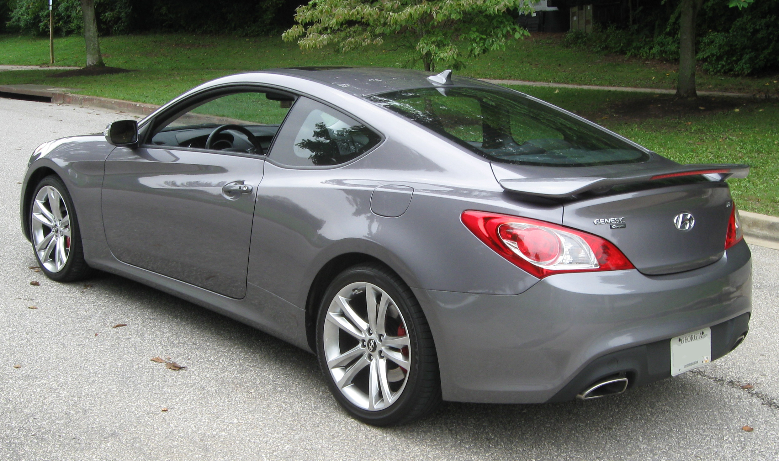 2010 Hyundai Genesis Coupe 3.8 Track photographed in Ellicott City, Maryland, USA.